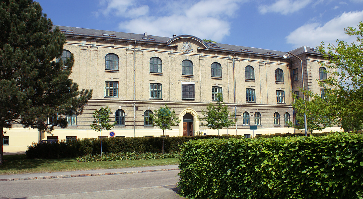 Sct Hans Hospital, psykiatric hospital in Roskilde, Denmark. Building Fjordhus from 1872